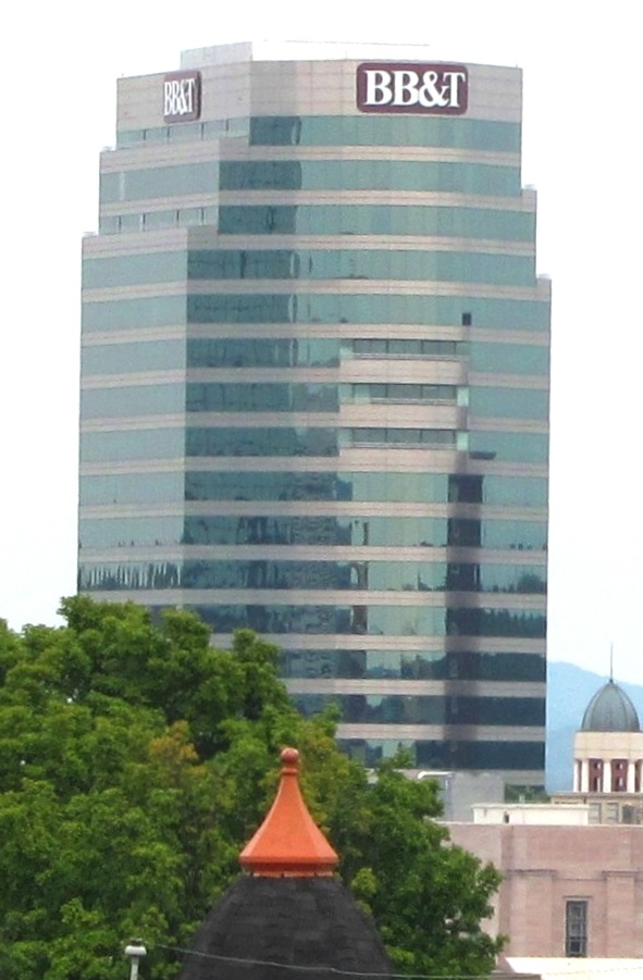 The Riverview Tower, the second-tallest building in Knoxville, Tennessee, USA, viewed from Laurel Avenue in the Fort Sanders area.